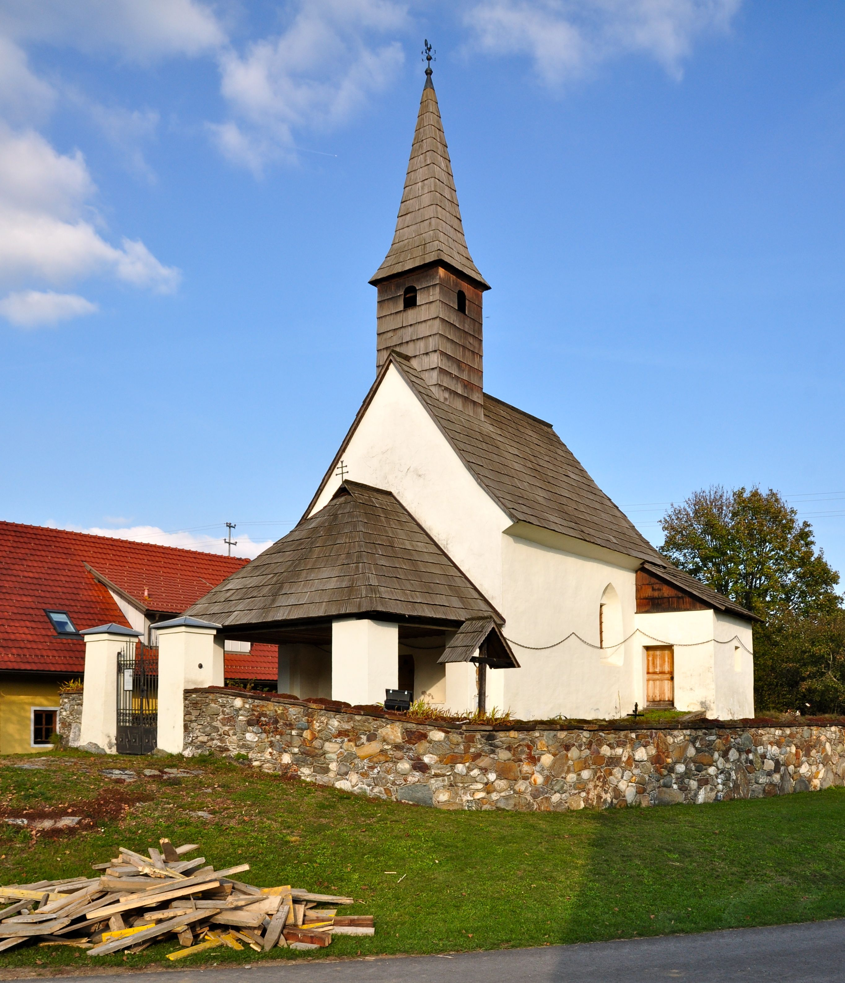 Subsidiary church Saint Leonard in Stocklitz, municipality Feldkirchen, district Feldkirchen, Carinthia, Austria, EU